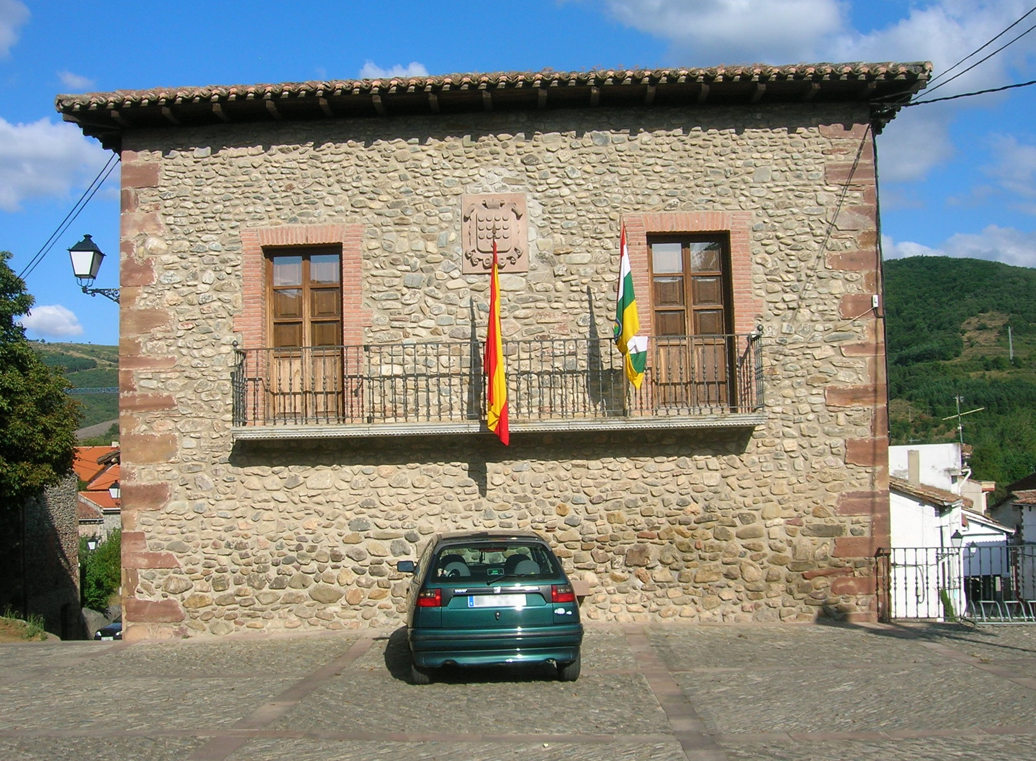 Town hall of Ojacastro, La Rioja, Spain